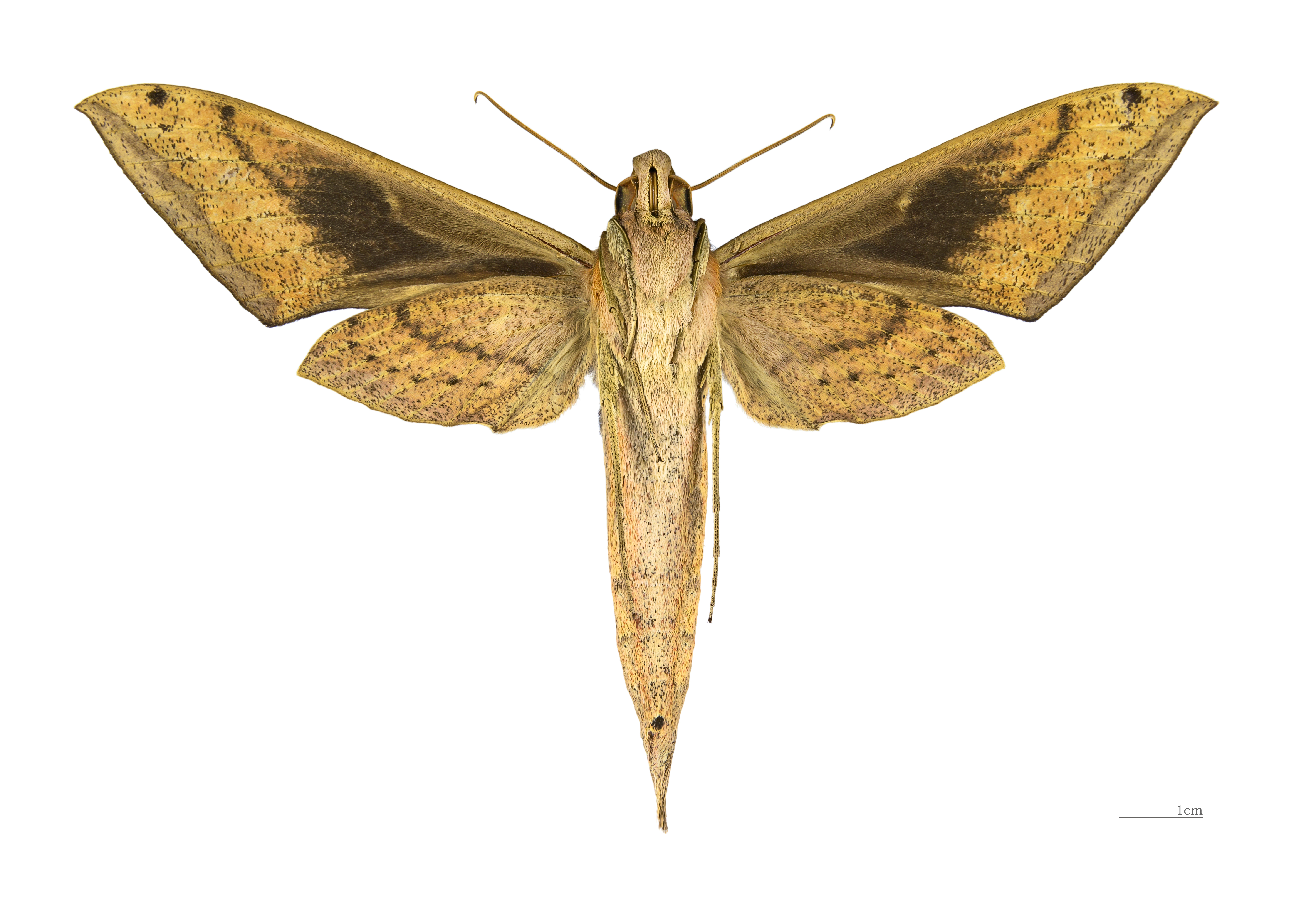 Xylophanes anubus - △ Ventral side